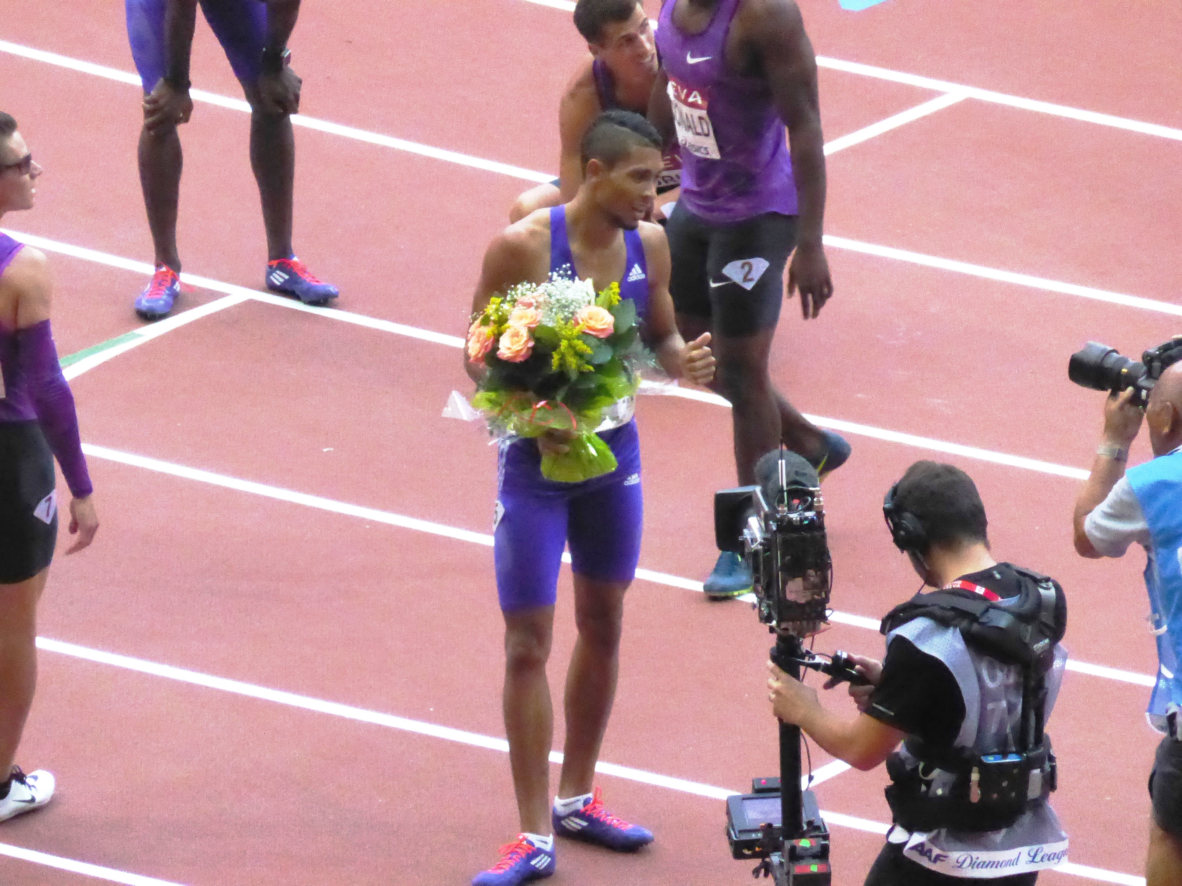 2015 Meeting Areva, Stade de France, Paris.